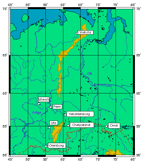 Added Izhevsk to the Ural_Mountains_Map.gif Wikipedia file previously used here. This map's view is so small as to make it nearly impossible to find on a real map unless you happen to be from the area.